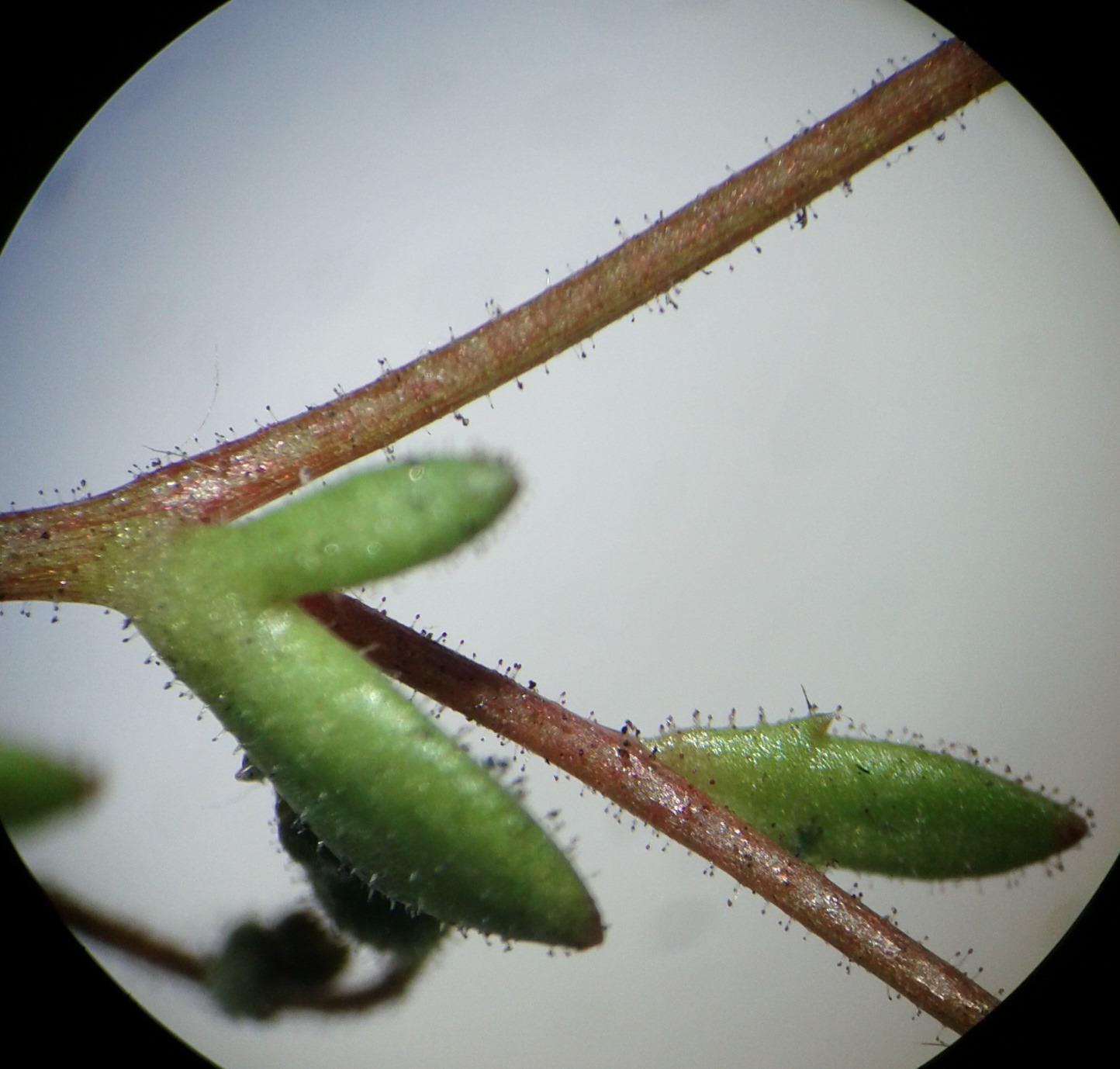 Stipe with leaf Taxonym: Saxifraga tridactylites s. str. ss Fischer et al. EfÖLS 2008 ISBN 978-3-85474-187-9 Location: Jedlersdorf rail station, Vienna-Floridsdorf - ca. 160 m a.s.l. Habitat: ballast